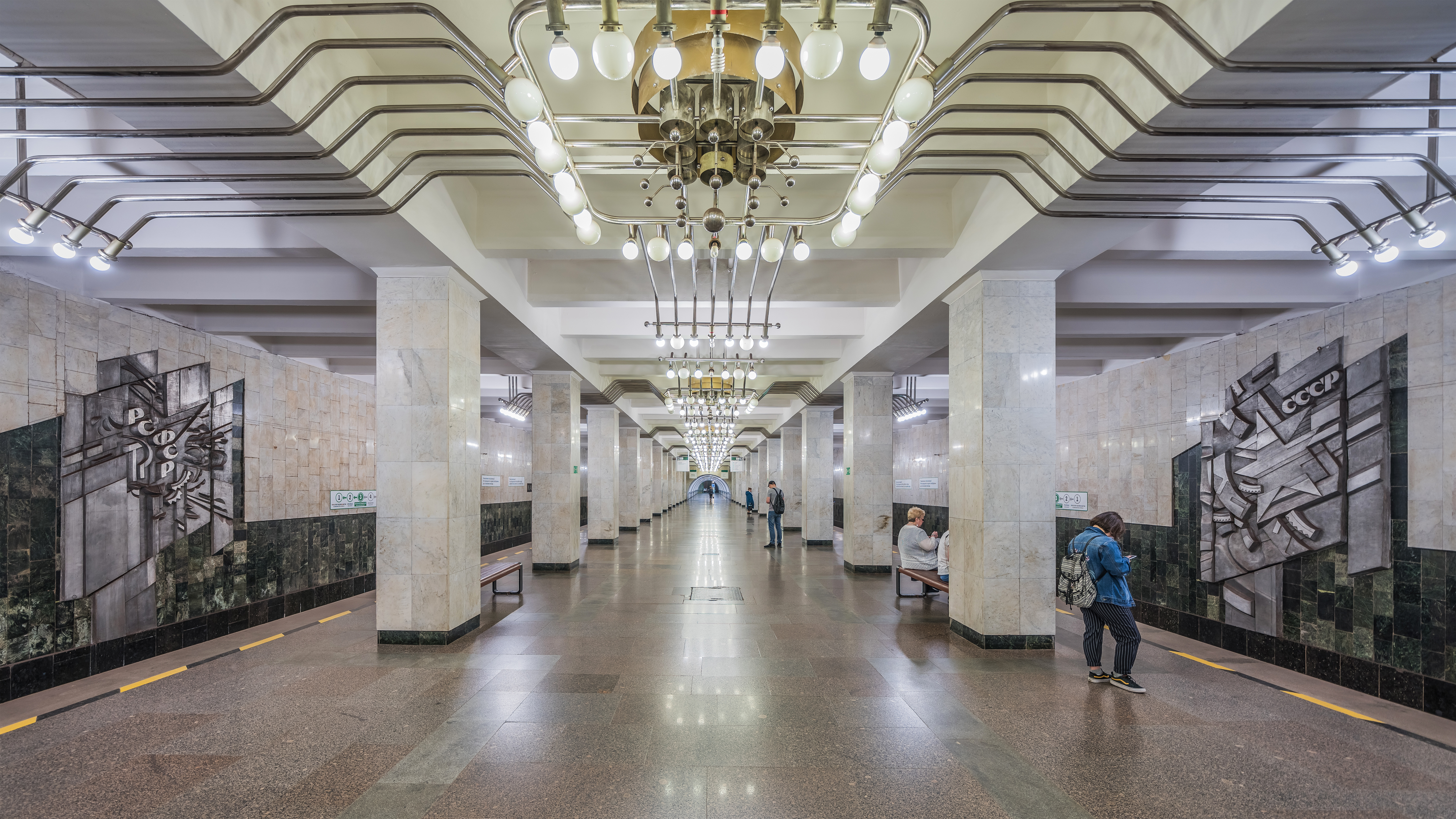 Mashinostroiteley metro station in Ekaterinburg, Russia